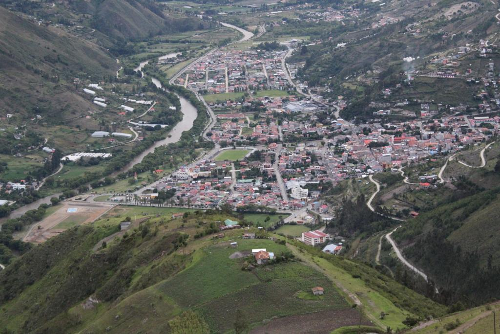 Vista desde la cabeza de perro